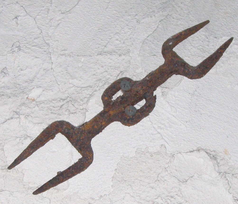 Heretic's fork at the torture museum in Freiburg im Breisgau